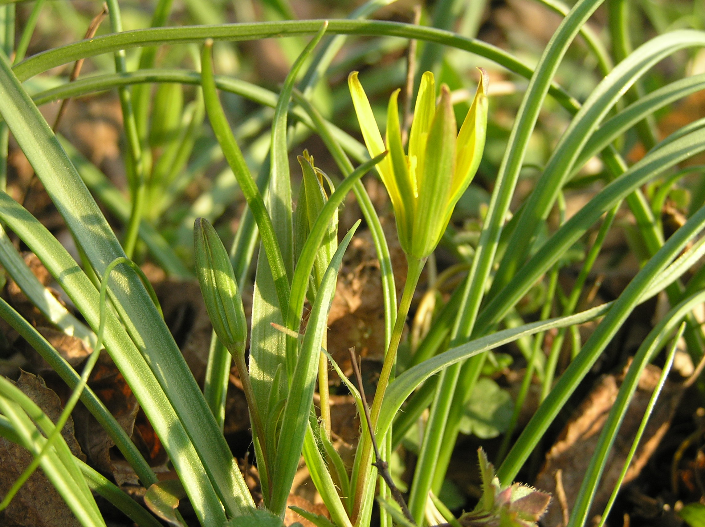 Gagea pratensis, near Třeboň, Czech Republic